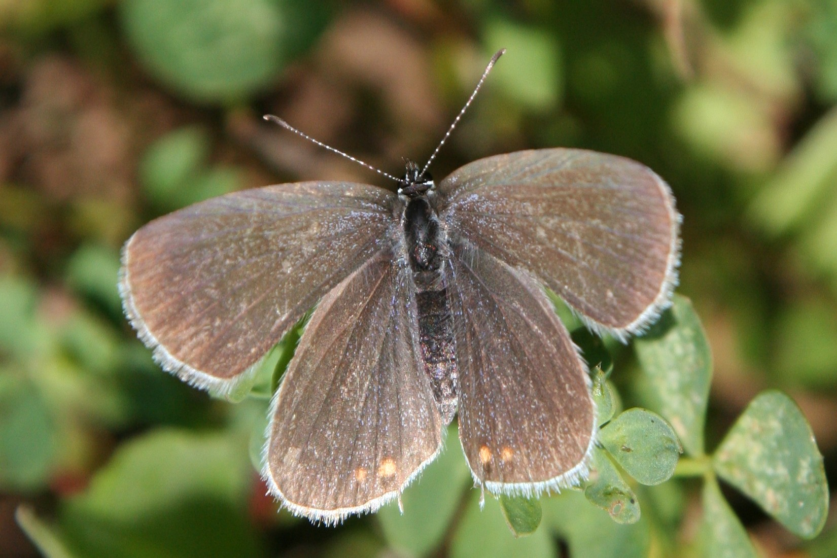 A female short-tailed blue butterfly (Cupido argiades), photographed in Weinsberg